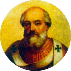 Portait of Pope Adrian II in the Basilica of Saint Paul Outside the Walls, Rome